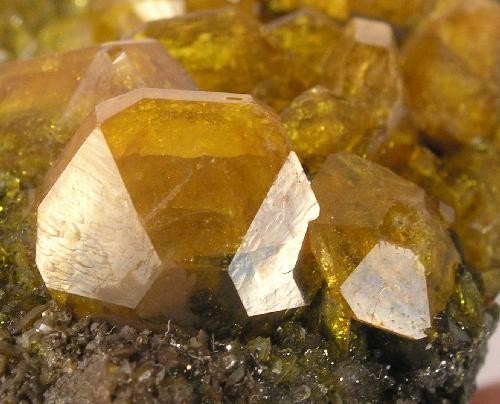 Sturmanite Locality: N'Chwaning Mines, Kuruman, Kalahari manganese fields, Northern Cape Province, South Africa (Locality at ) Size: 5.4 x 4.2 x 1.7 cm. A distinctive Sturmanite specimen consisting of a dozen or so sharp .8 cm hexagonal crystals with great luster and an appealing bronze-toned color. These partially gemmy crystals have a very interesting habit - basically hexagonal tabular crystals with truncated pyramidal terminations. Very sharp and very attractive. Ex. Charlie Key stock.